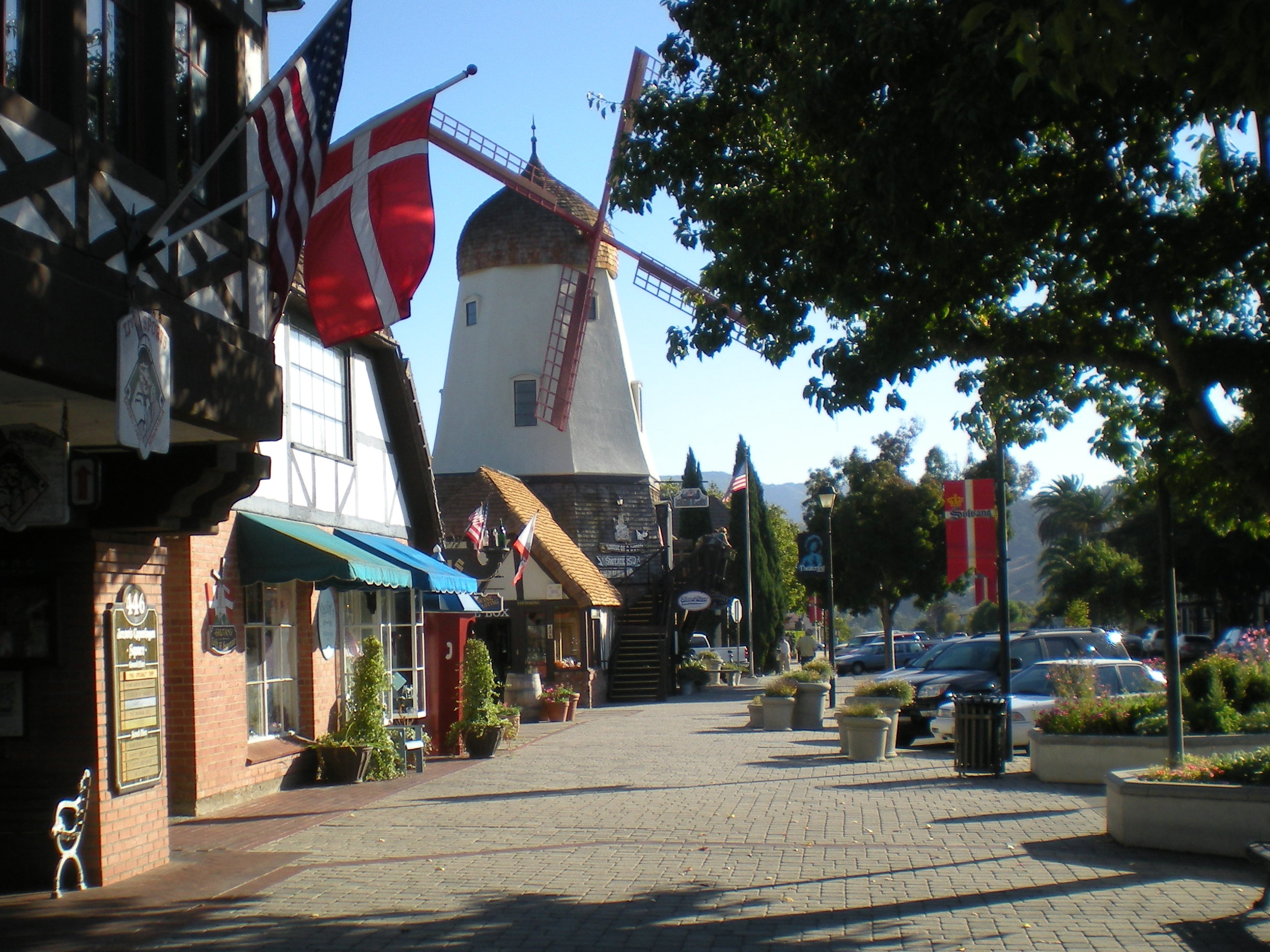 Solvang, California, with Danish style windmill and Danish flags